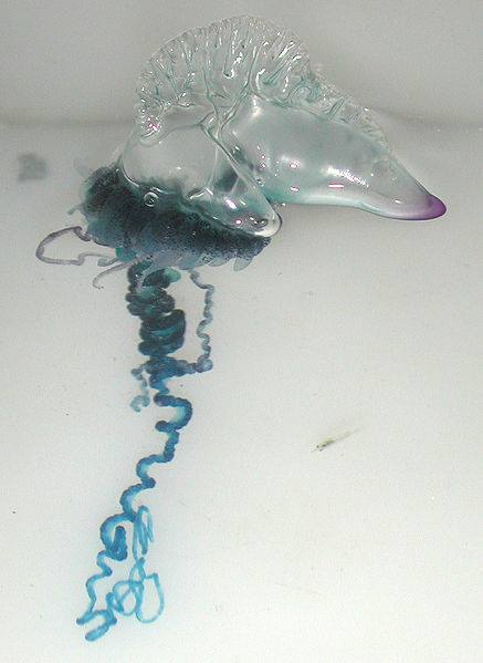 physalia